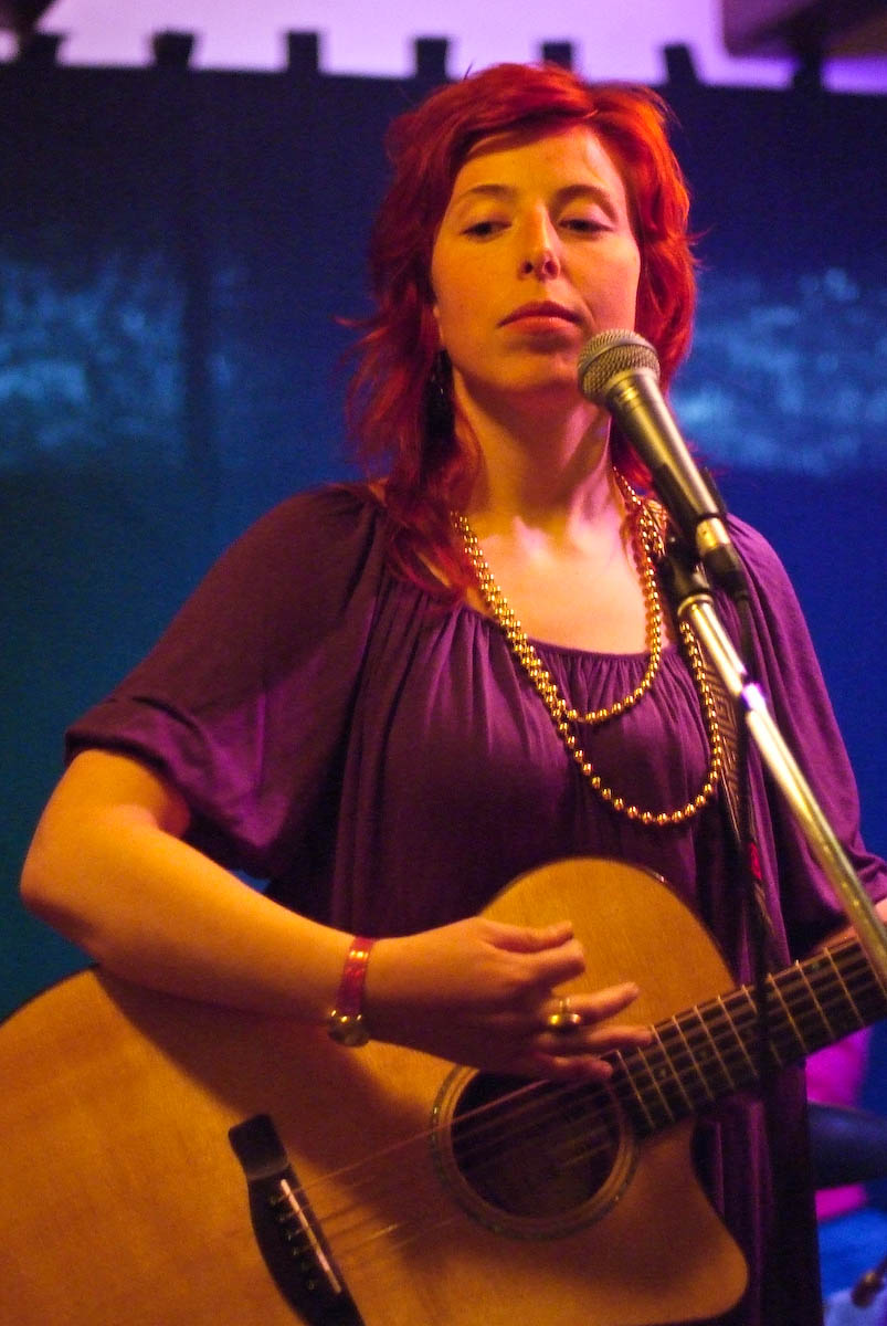 Guðrið Hansdóttir, Faroese singer/songwriter at a concert in Tórskjallarin, Tórshavn, Faroe Islands.